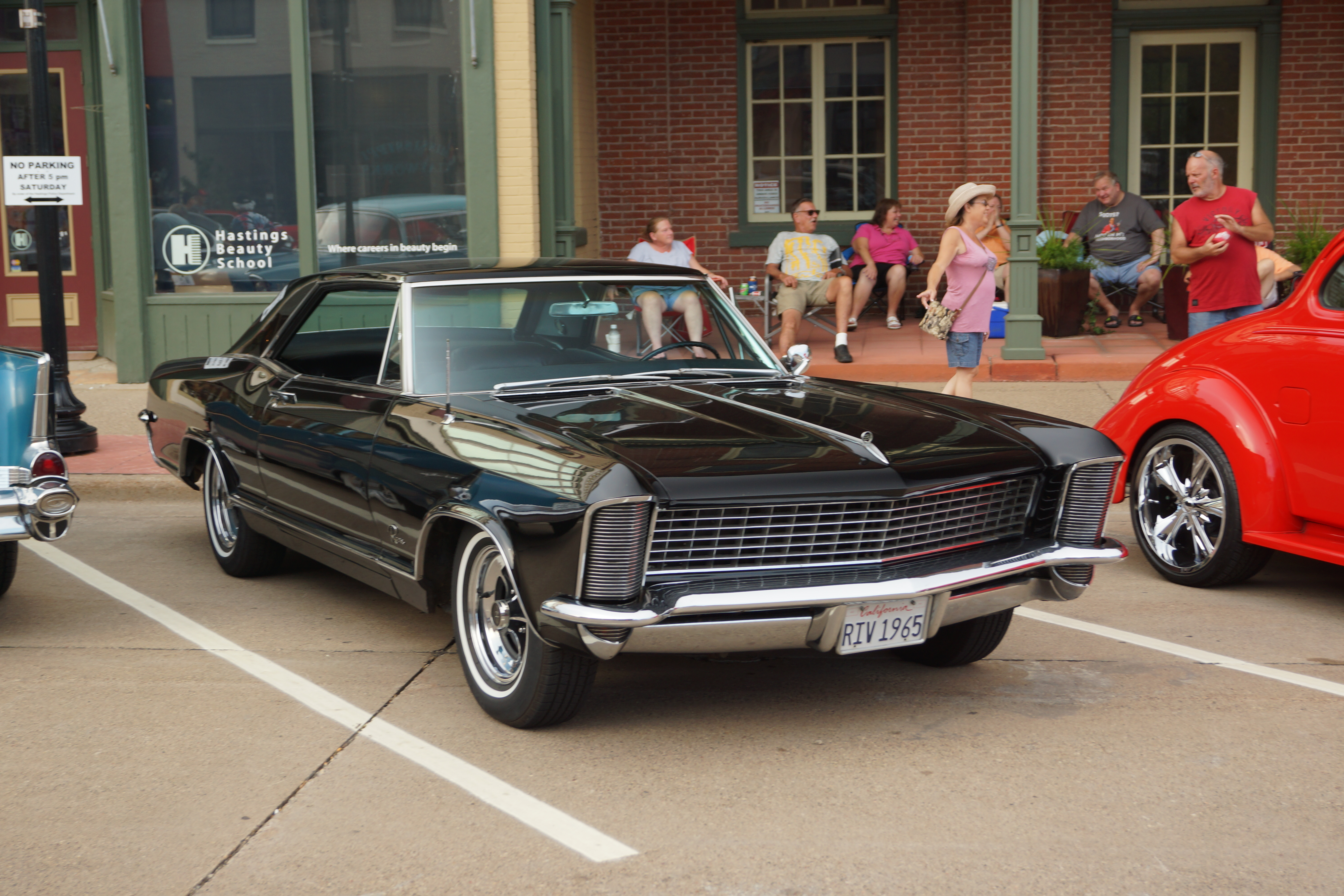 HISTORIC DOWNTOWN HASTINGS CRUISE-IN & CLASSIC CAR SHOW Hastings, Minnesota Season Finale September 2017 ******* Click here for previous Hastings Cruise Night pictures.. Click here for more car pictures at my Flickr site. Or here for my Car Crazy Tumblr site. Or on Twitter @DVS1mn.